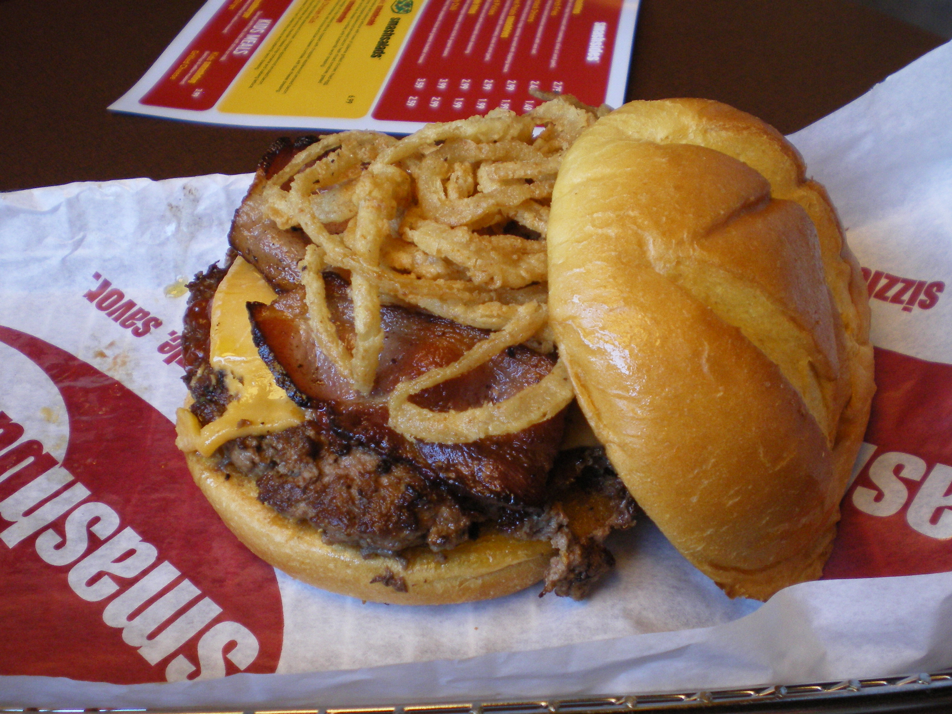 A bacon cheeseburger with deep-fried onions and barbecue sauce as served by Smashburger. According to their online menu as viewed on 2010-07-31, the burger contains "BBQ sauce, applewood smoked bacon, cheddar cheese and Haystack Onions on an egg bun." Photographer's caption: "The BBQ, Bacon and Cheese Smashburger."